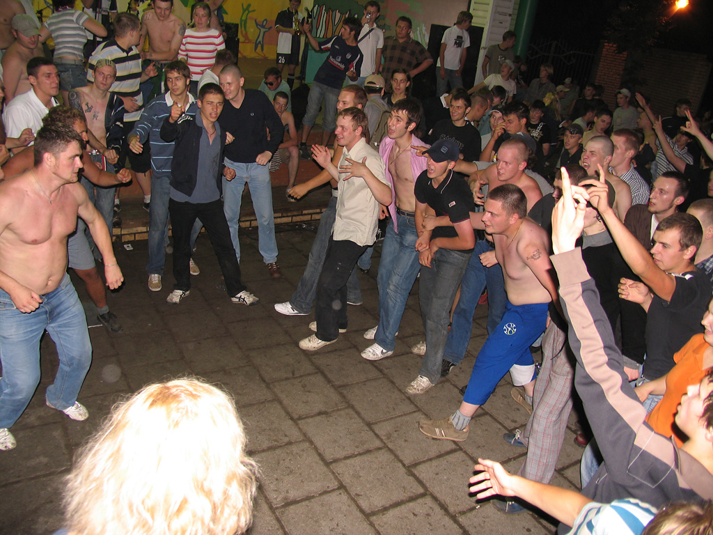 ska concert in Moscow